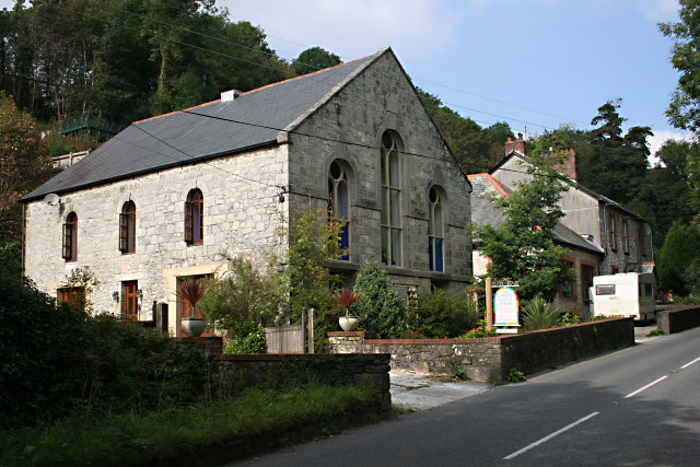 Converted Chapel at Carthew This building used to be a Methodist chapel but is now a guest house.